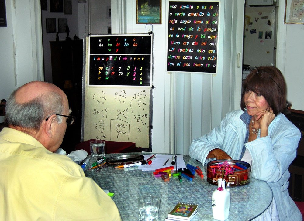 A one-on-one Spanish lesson taught using the Silent Way, in Guadalajara, Mexico.